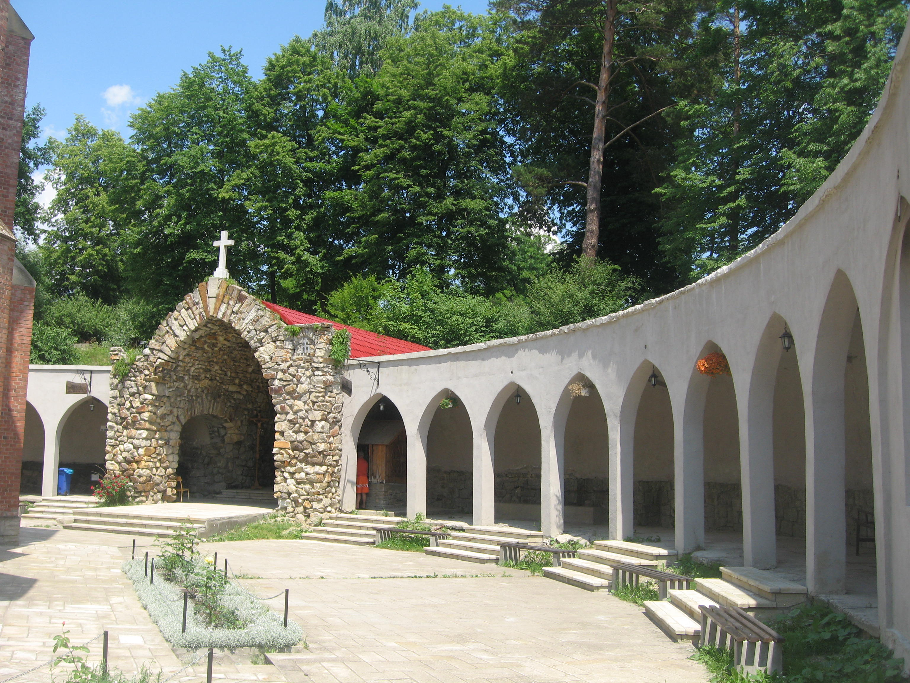 Roman-Catholic Church in Cacica, Suceava County, Romania